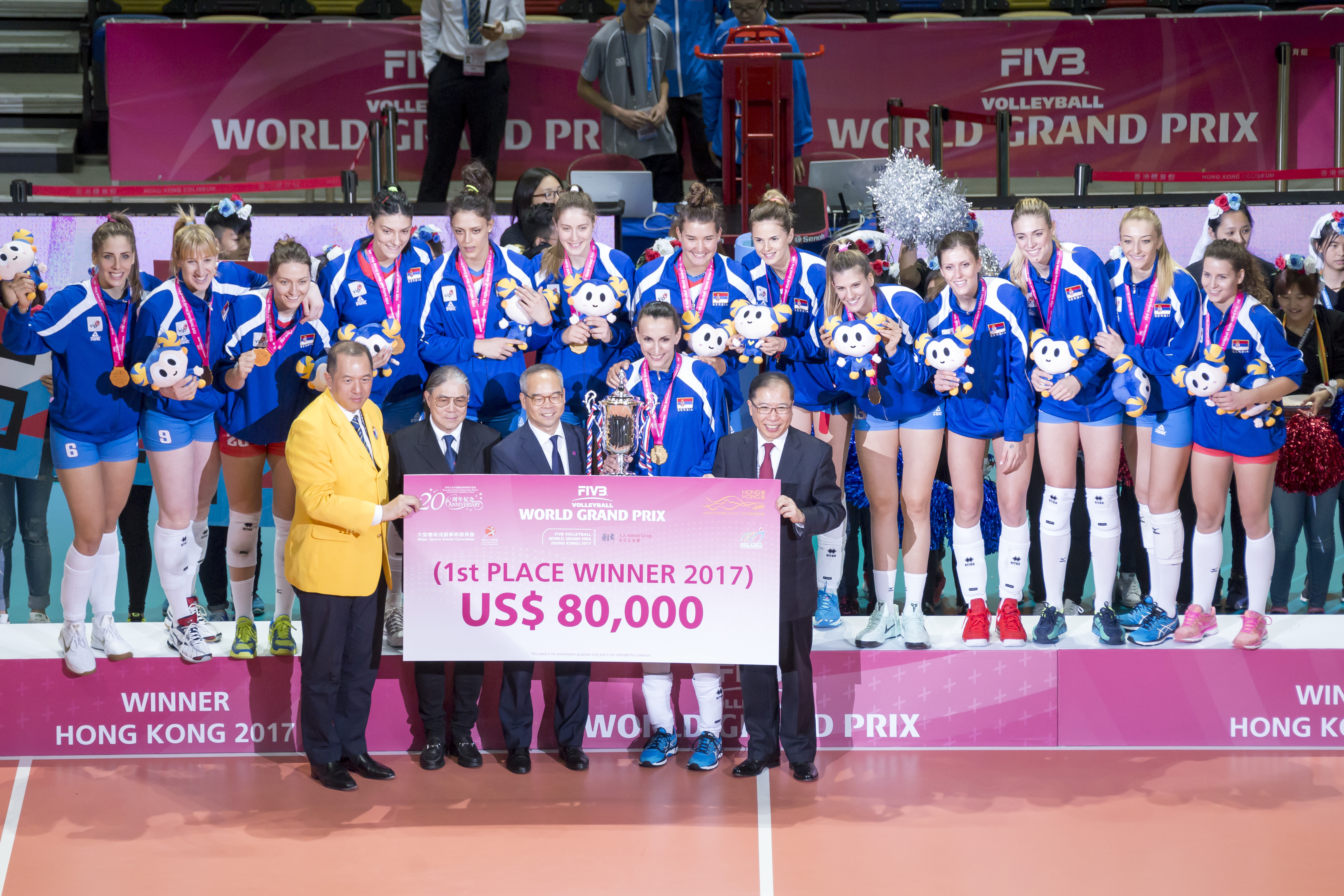 Serbian Volleyball team winning GP 2017